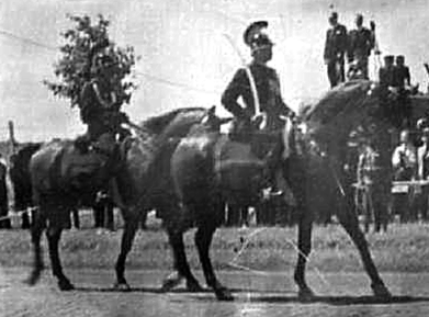 Polish Mounted Police before 1939